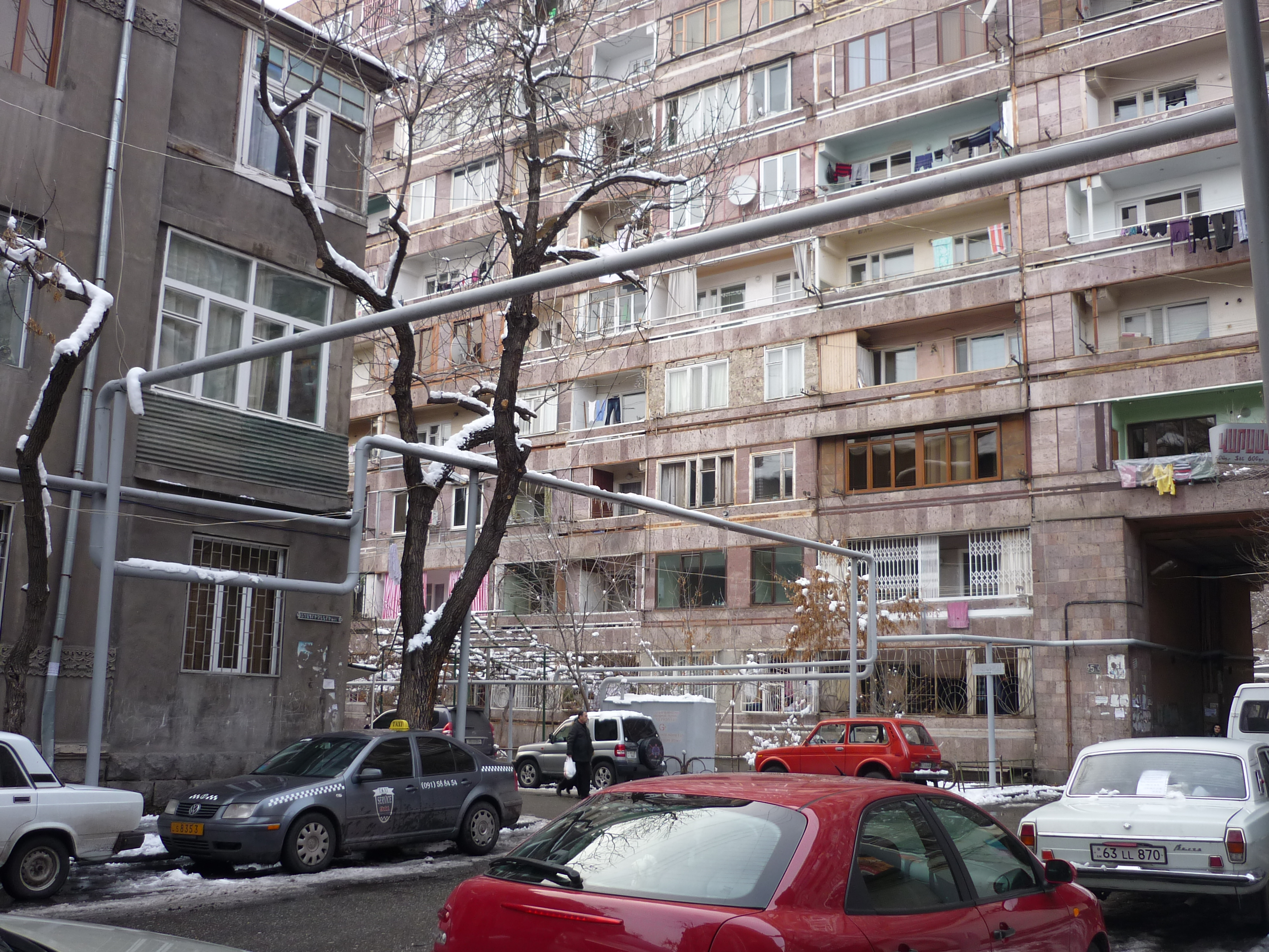 Crossroad of Vardanants Street and Tpagrichner Street, Yerevan